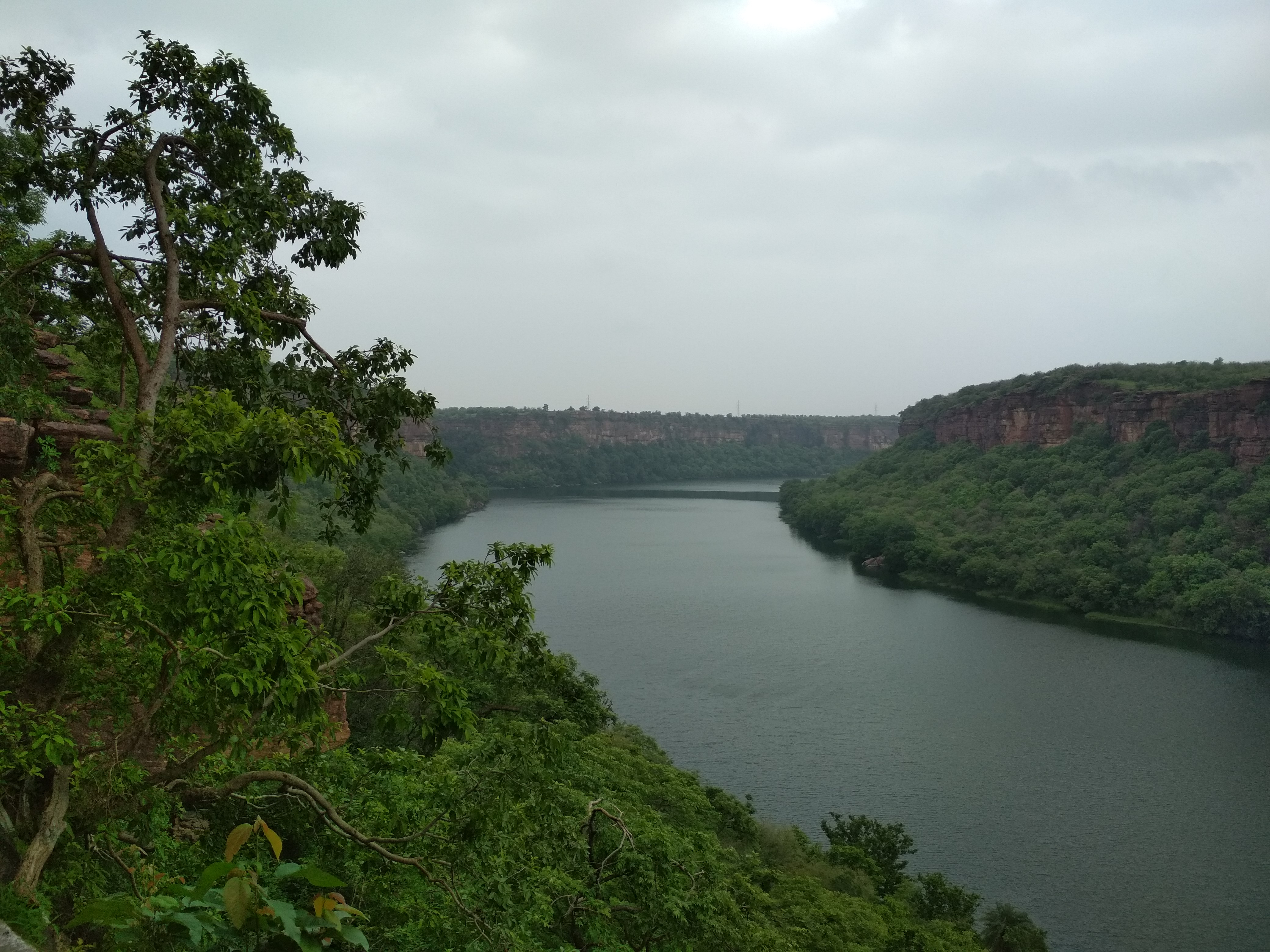 A view from Garadiya Mahadev during monsoon